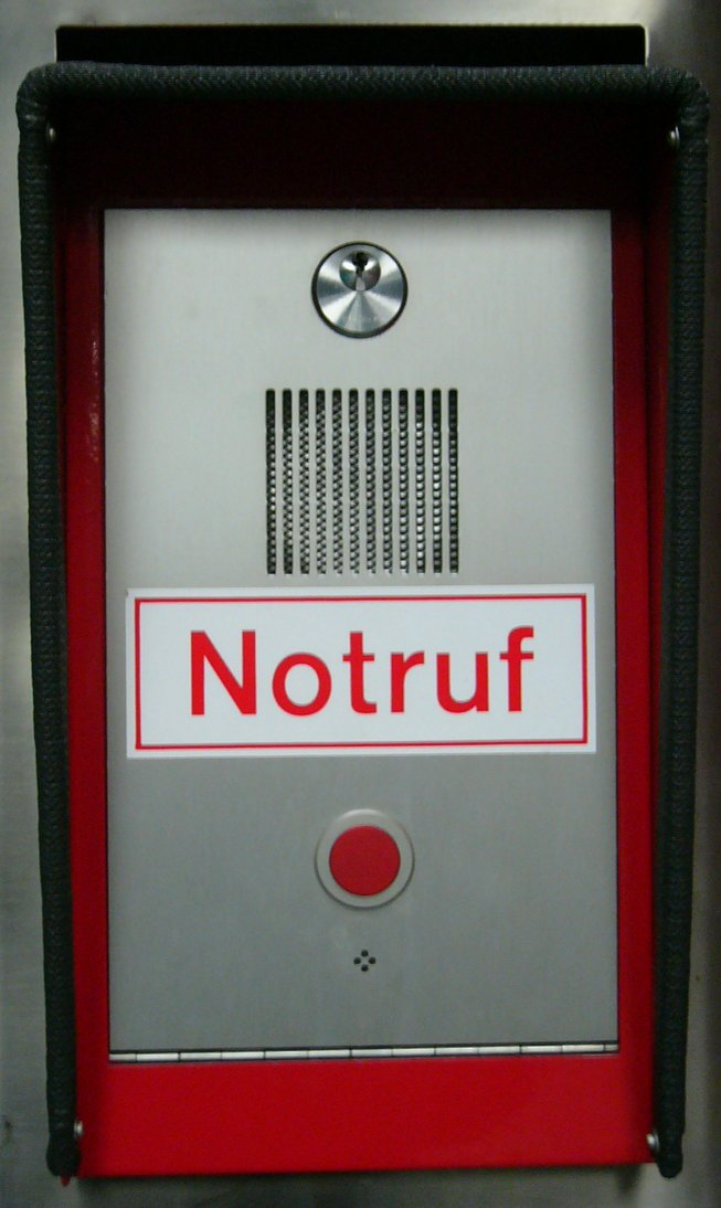 Emergency call device (Germany) - "Notruf").